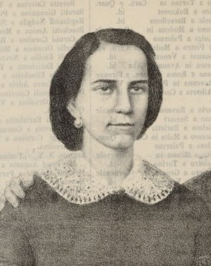 Portrait of Barbara Marchisio (1833-1919)